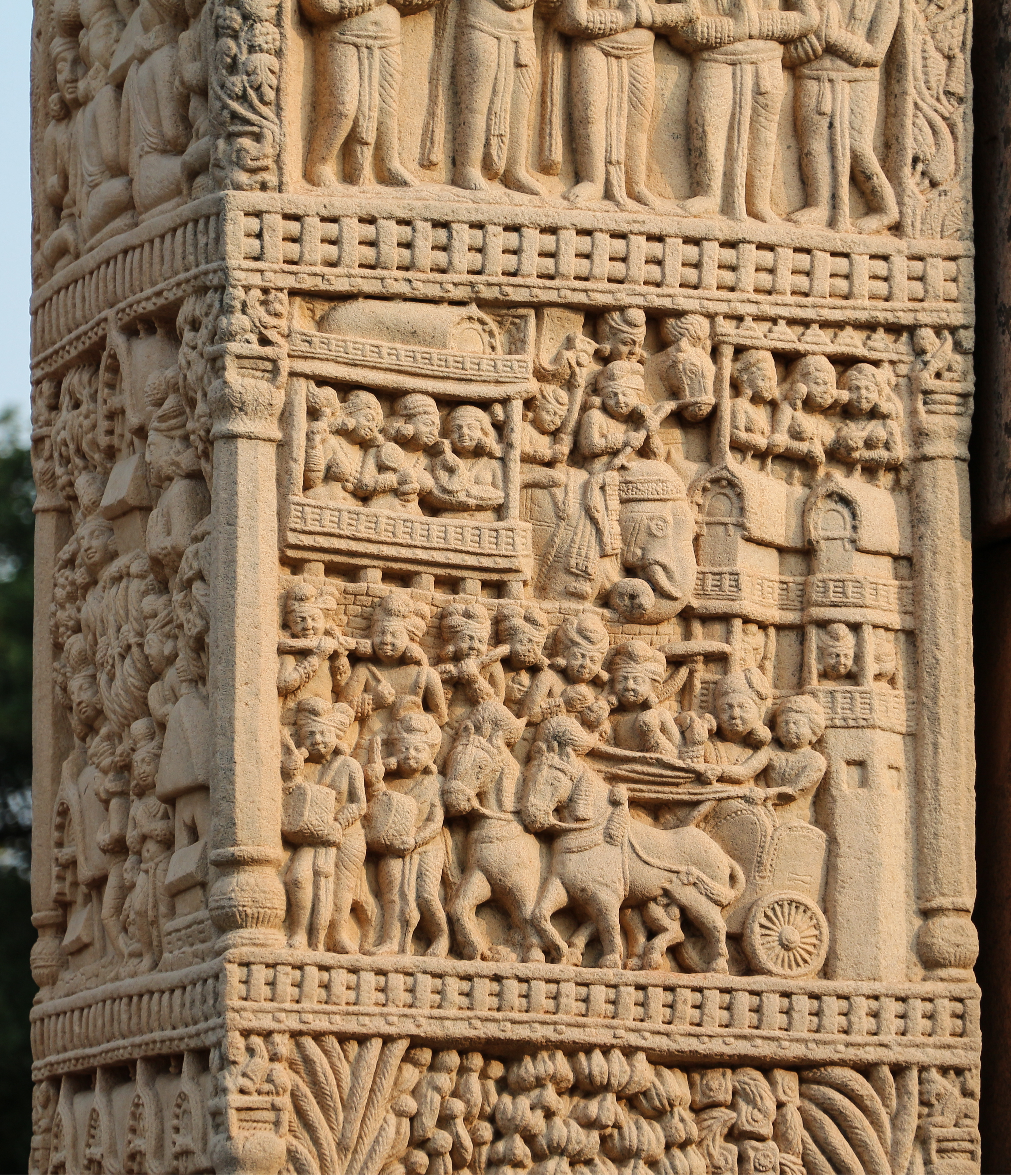 Carvings on right side of the west pillar of North Torana, Sanchi, India